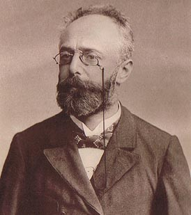 A portrait of Theodor Hertzka. Cropped version of a picture uploaded by user Amire80.